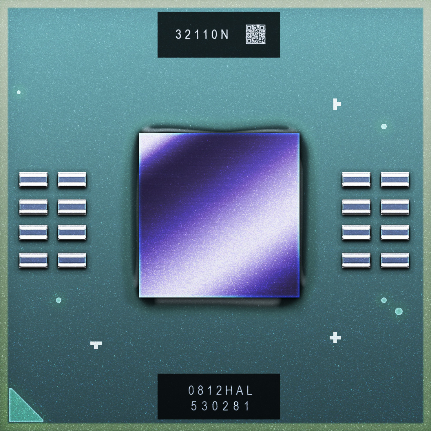 This is an illustration of Toshiba's SpursEngine media accelerator chip. Based in part on technology from the Cell microprocessor. It's manufactured week 12, 2008 at a 65 nm process. Inspiration to this picture was found in this PDF by Toshiba.